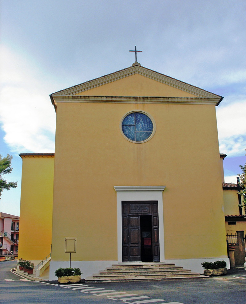 Church of Santi Lorenzo e Agata, Guardistallo (Pisa, Tuscany)